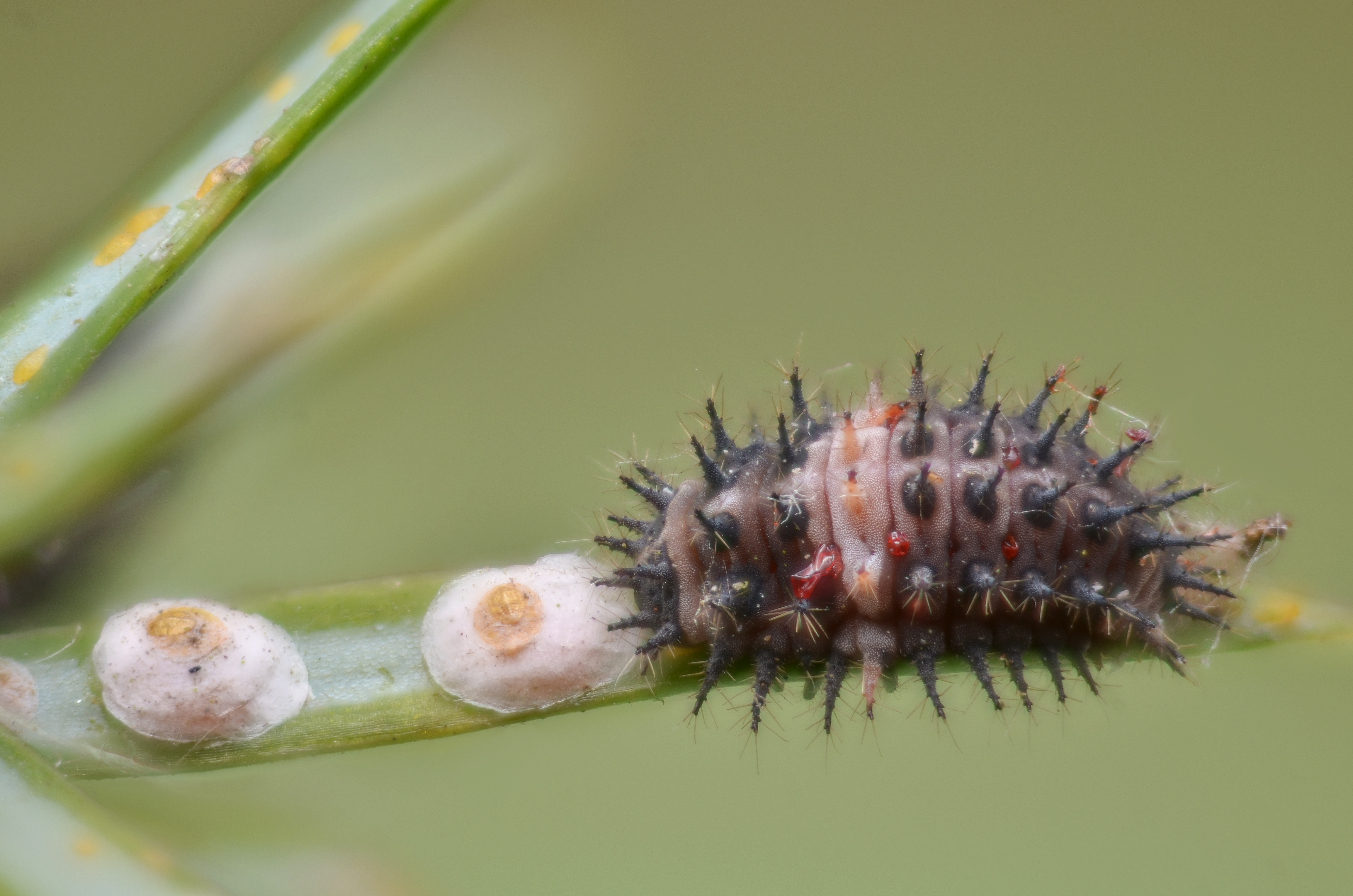 Chilocorus bipustulatus larvae on Juniperus communis with its food : scale insects (probably Carulaspis juniperi) Focus stack of 28 images on the field (natural light + flash) Micro-Nikkor AF-D 60mm f/2.8 on extension tubes, at f/4.8, 1/80s, 100 ISO